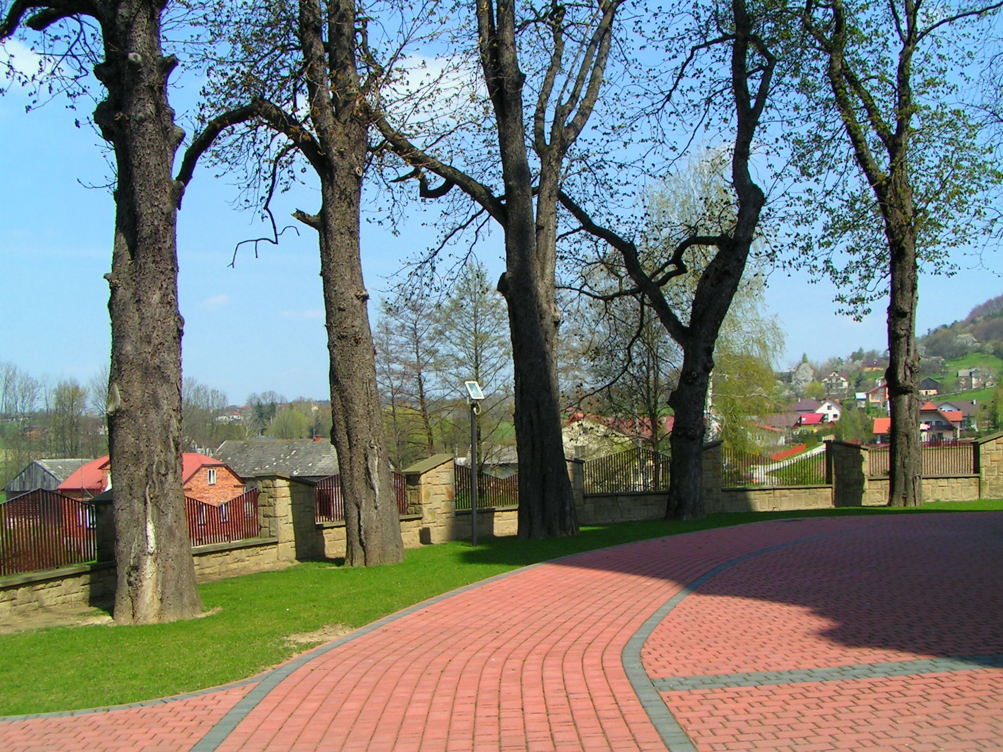 Parish Church of St. Martin the Bishop in Łużna - courtyard